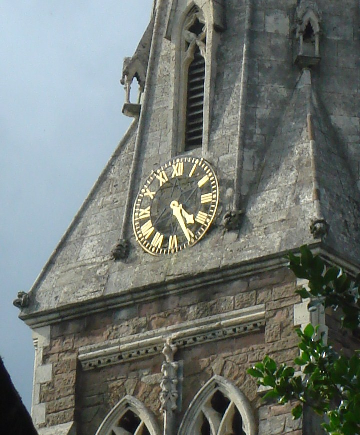 Clock on the steeple of St Mary's Church in Selly Oak